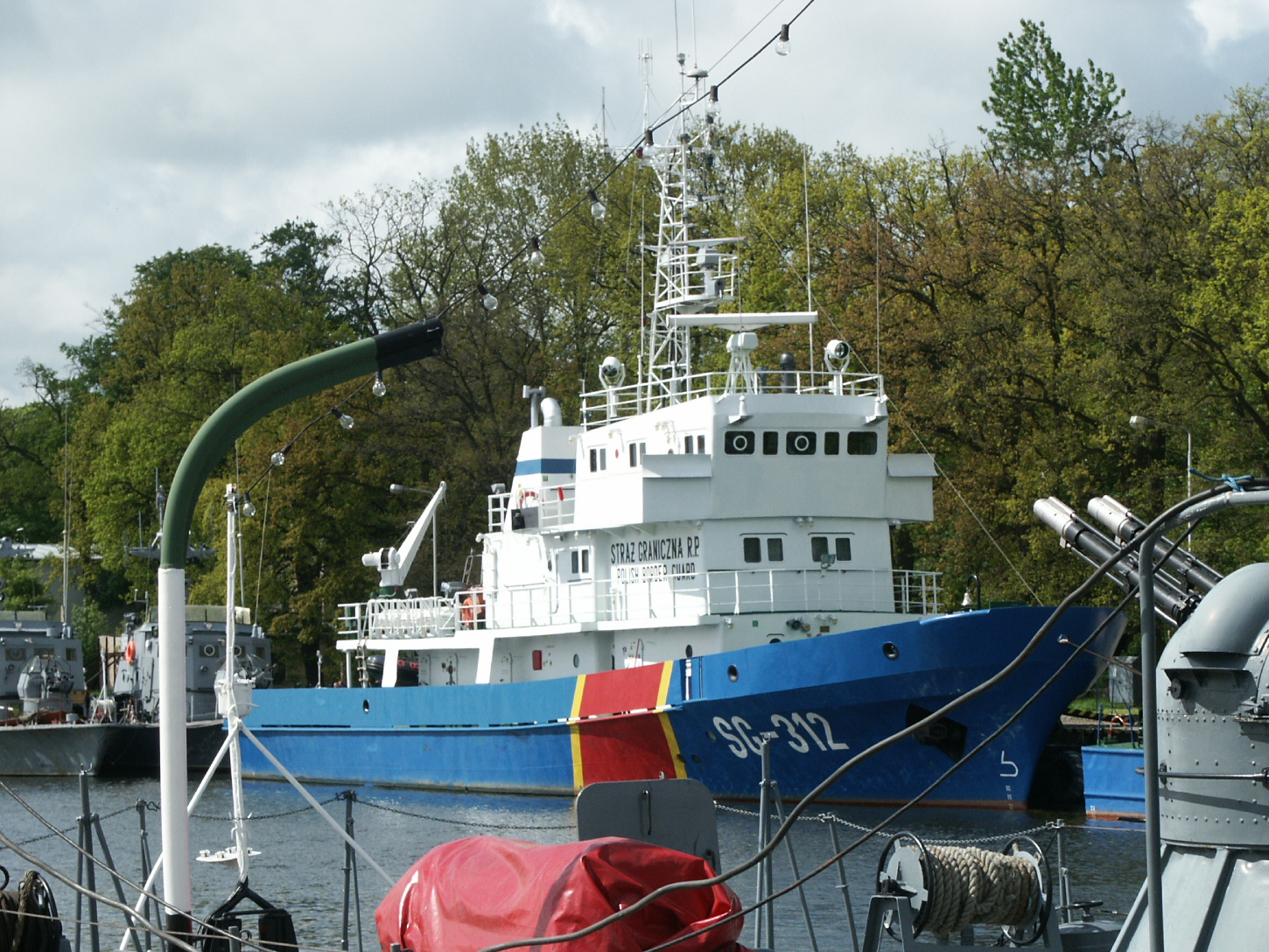 Polish Border Guard ship Kaper-2, SKS-40 class. Type: patrol vessel (originally Fishery Protection Vessel) Built: 1994 IMO number: 8818063 Callsign: SQSP 66